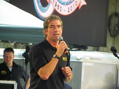 Photo of Joel Manby speaking at a public event